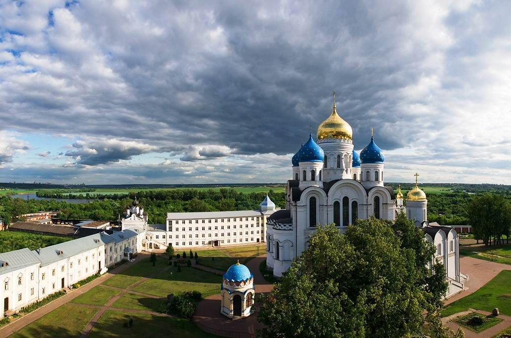 Ugreshi Monastery